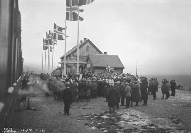 Opening of Lesja railway station on Raumabanen, in Dovre, Norway.